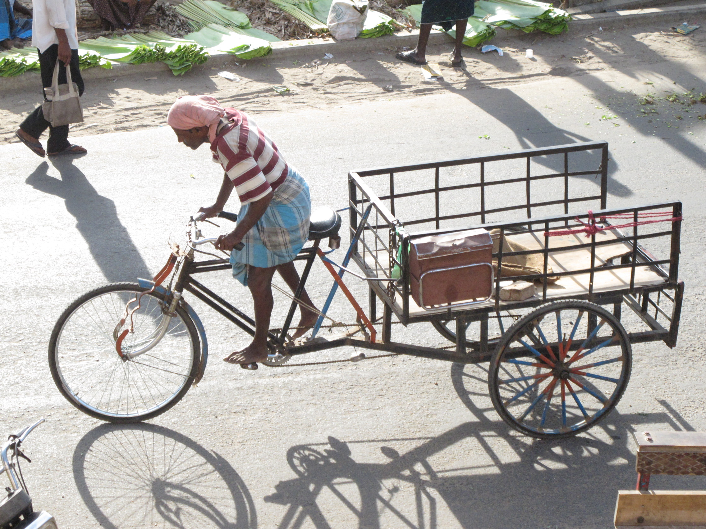 A market porter pedals a locally made goods carrier tricycle in Thoothukudi, Tamil Nadu, India. This is the Desi Indian low cost commercial vehicle traditionally popular in villages and cities along the coast or in the planes. In Hindi this type of DIY is called Jugaad and in Tamil this specific configuration (motorized or pedal driven) is called Meen Bodi Vandi, which means a fish delivery vehicle